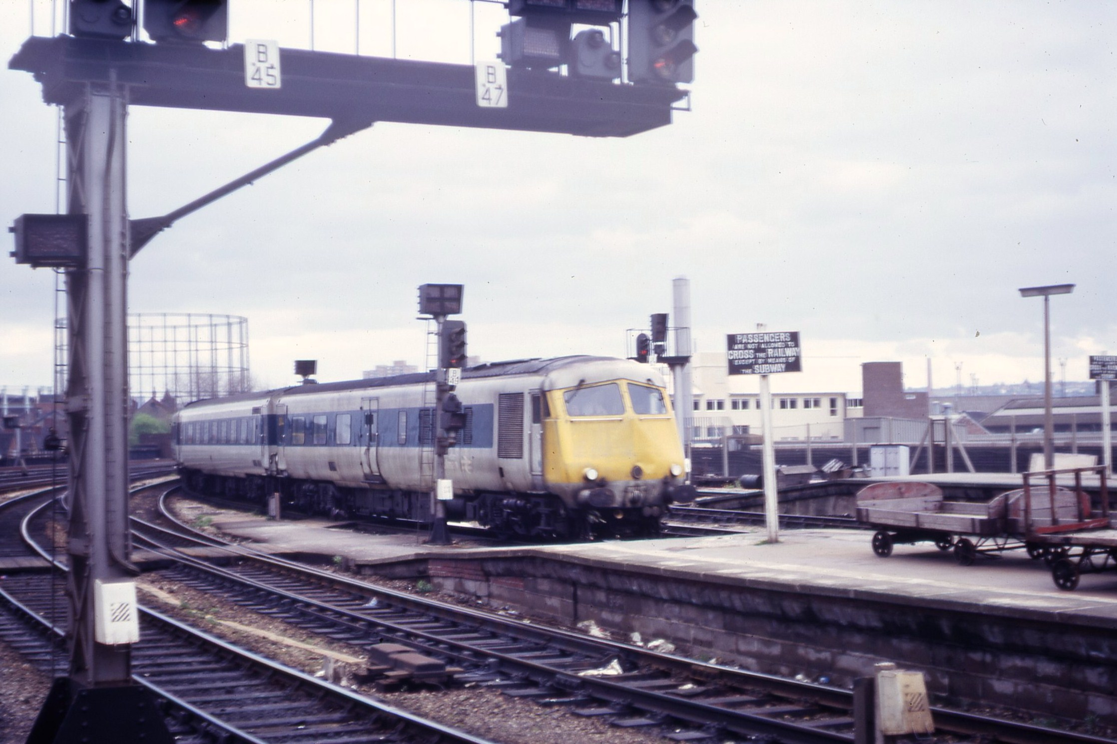 Metropolitan-Cammell eight-car DMU, last down Bristol Pullman, arriving Bristol Temple Meads 5.5.1973 Scans712